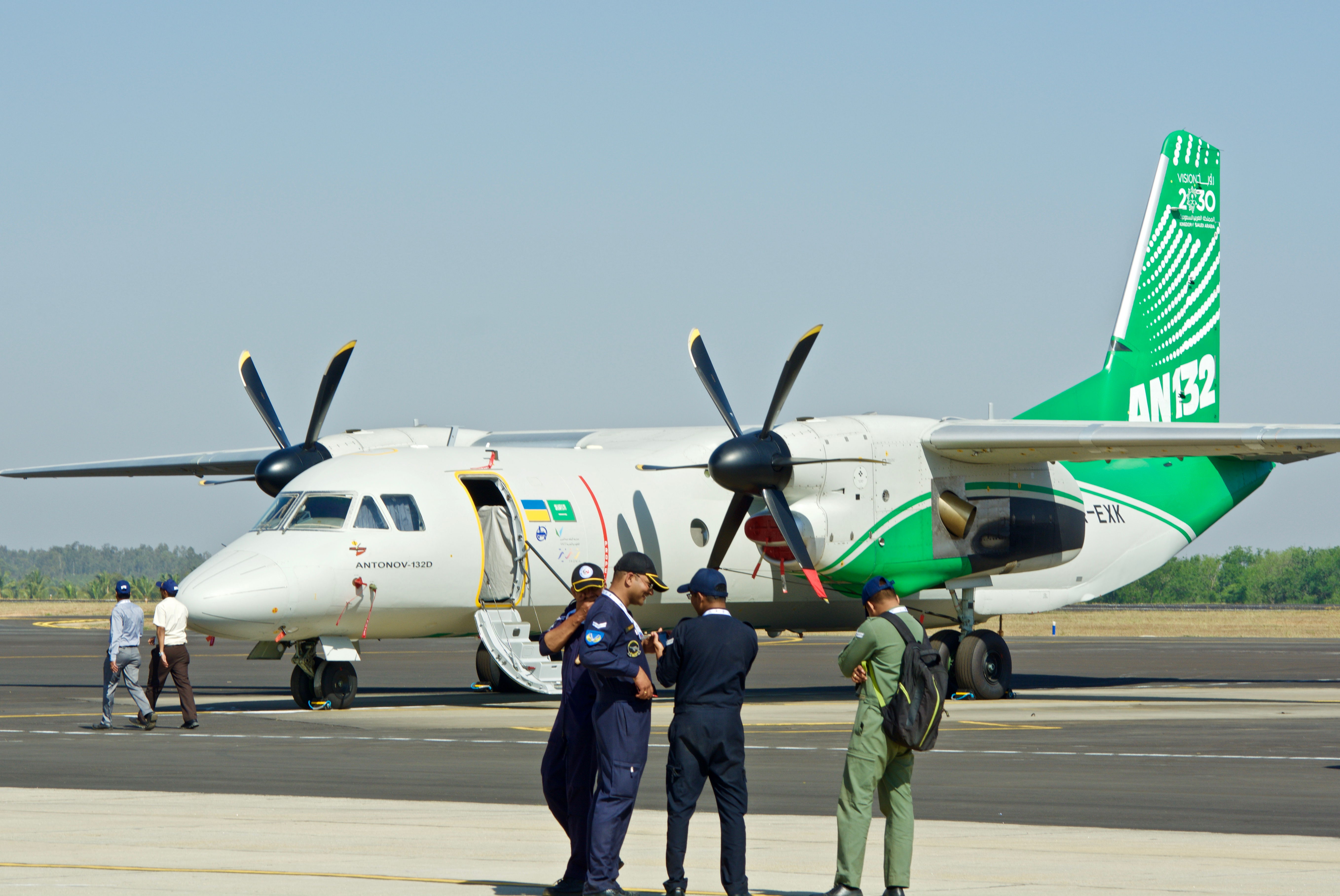 Antonov An132D seen parked at Aero India 2019